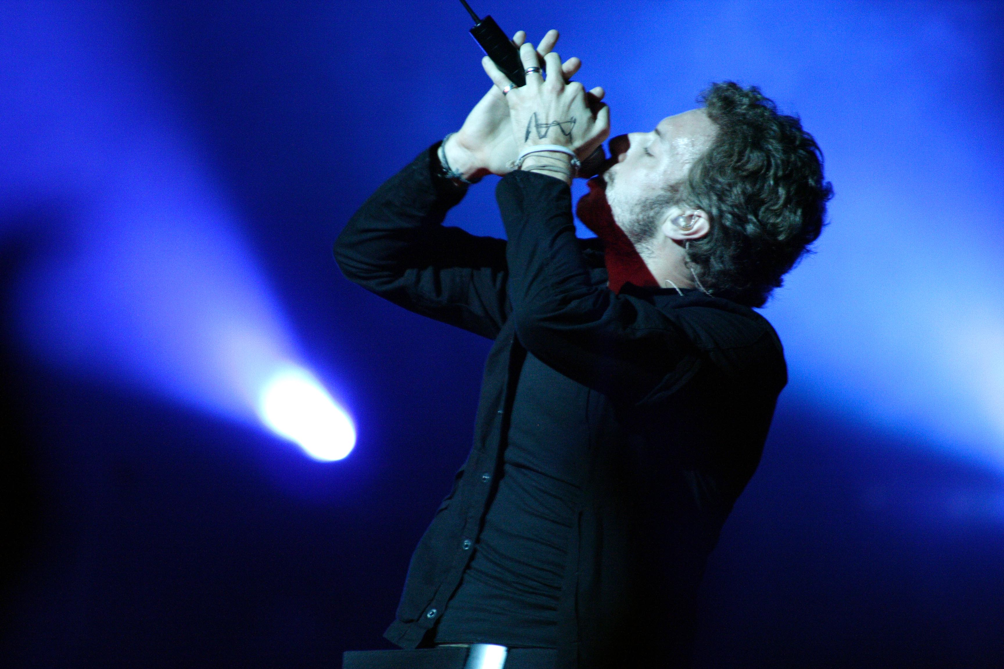 coldplay